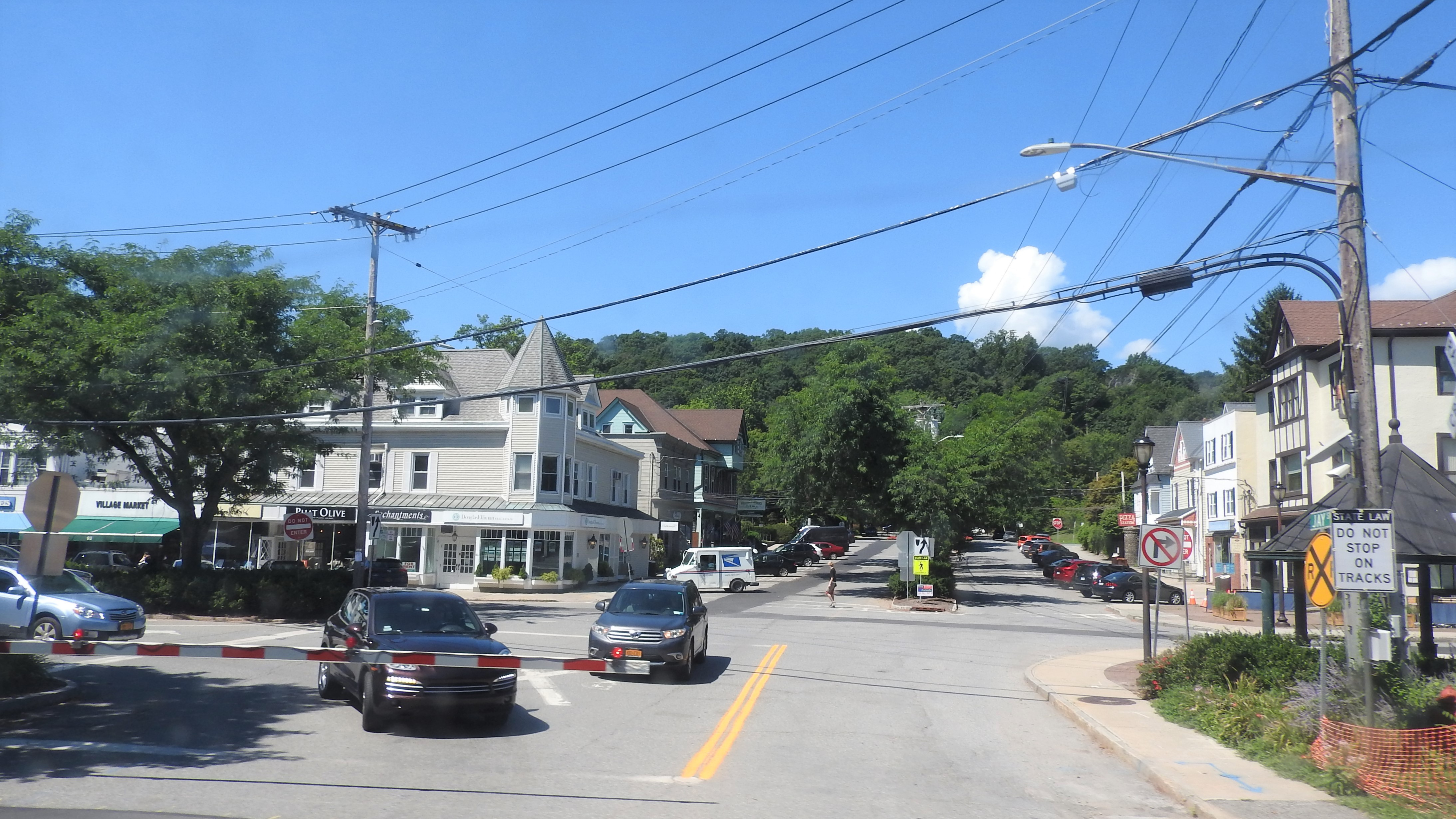 Looking west from a train on a sunny morning